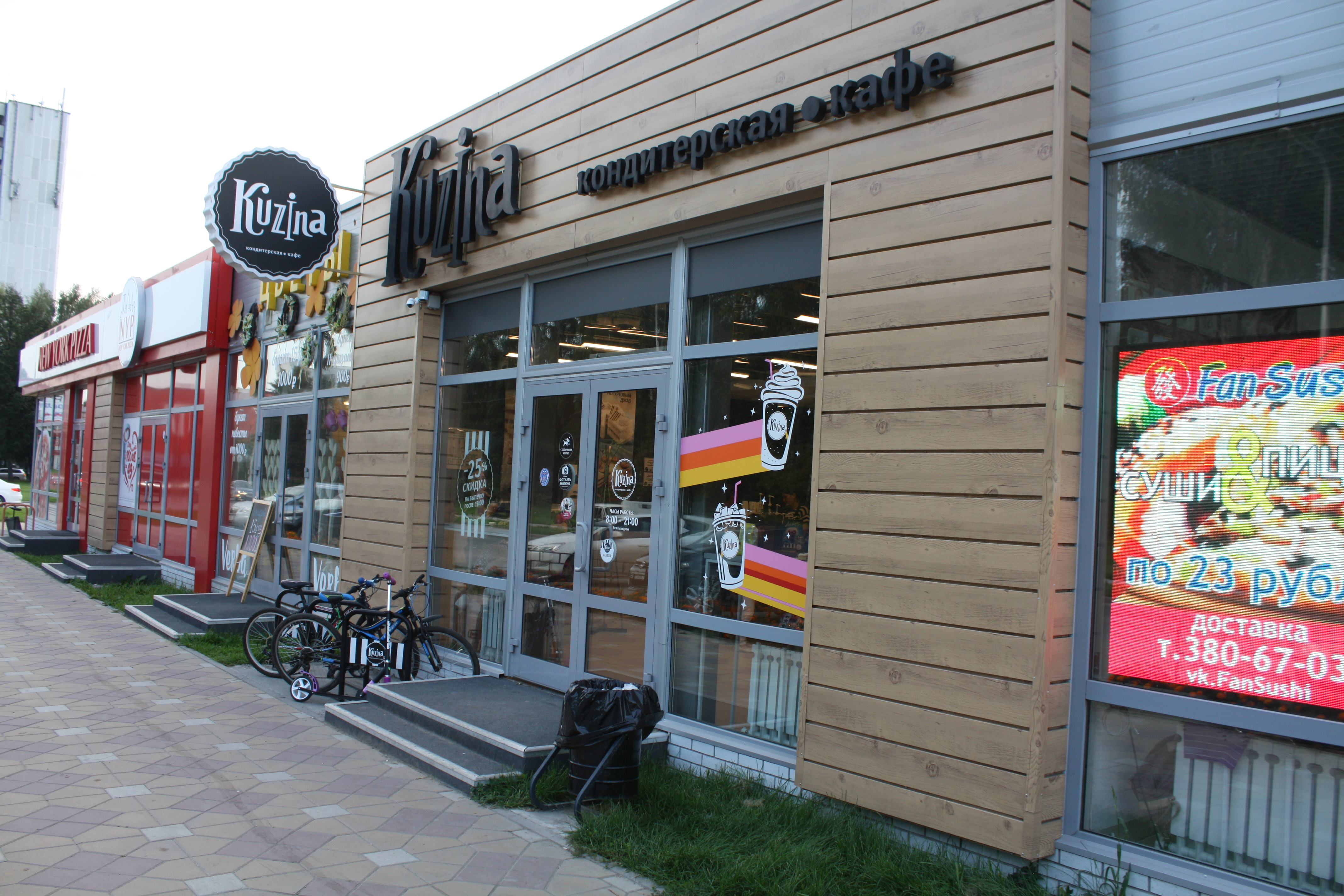 Kuzina Confectionery in Krasnoobsk. Novosibirsky District, Novosibirsk Oblast.